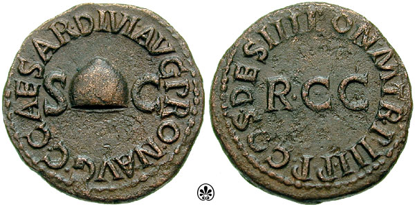 Caligula Æ Quadrans. C CAESAR DIVI AVG PRON AVG, pileus between S-C / PONT M TR P III PP COS DES III around large RCC. The theme of this coin alludes to the abolishment of a tax by Gaius (Caligula). The obverse of the coin contains a picture of the cap of liberty which refers to the dismissal of the tax in AD 38 and the liberation of the people from its burden. The cap is located between the legend Senatus Consulto. This is encircled by Caius CAESAR DIVI AVGusti PRONepos AVGustus, which reads “Gaius Caesar Augustus, great grandson of the Deified Augustus.” RIC 39.